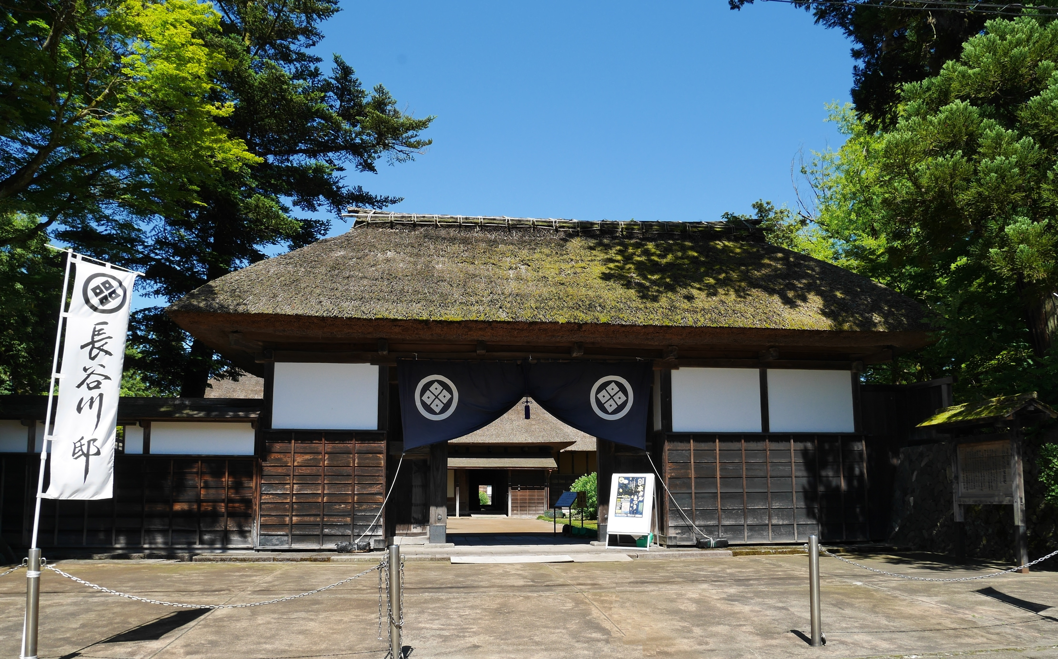 Hasegawa Family Residence "Hasegawatei"